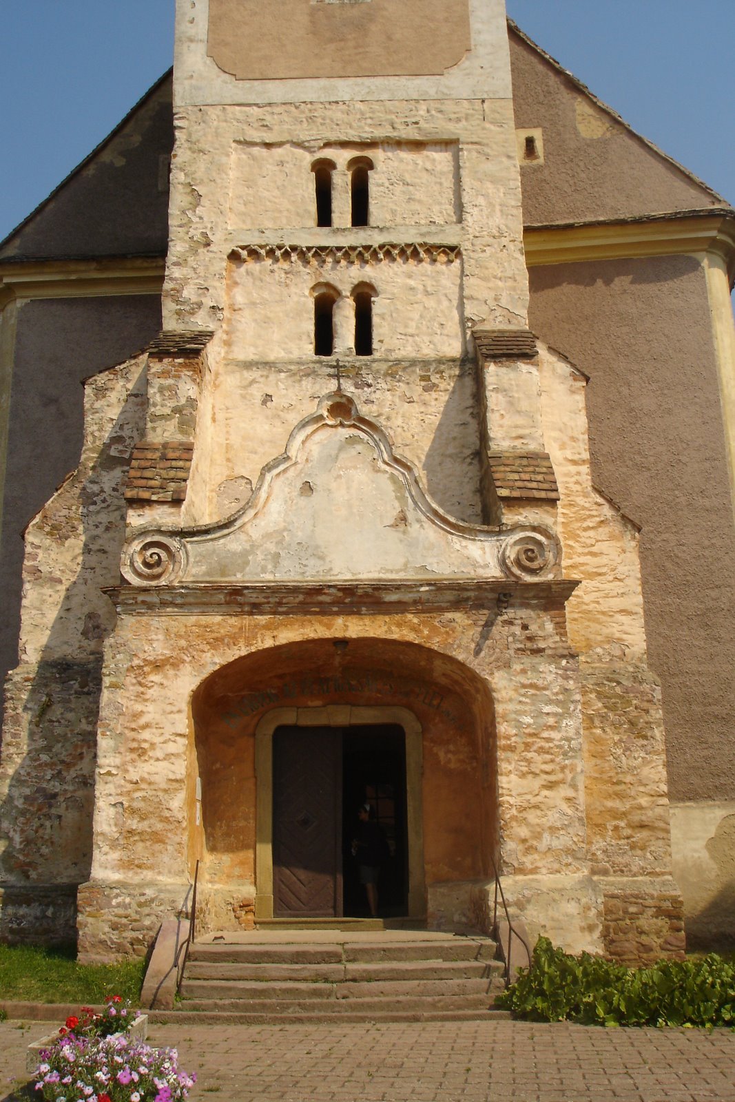 entrance of the church in Kővágószőlős